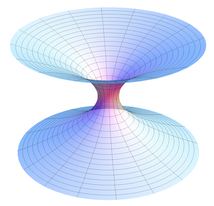 Exact mathematical plot of a Lorentzian wormhole (Schwarzschild wormhole).